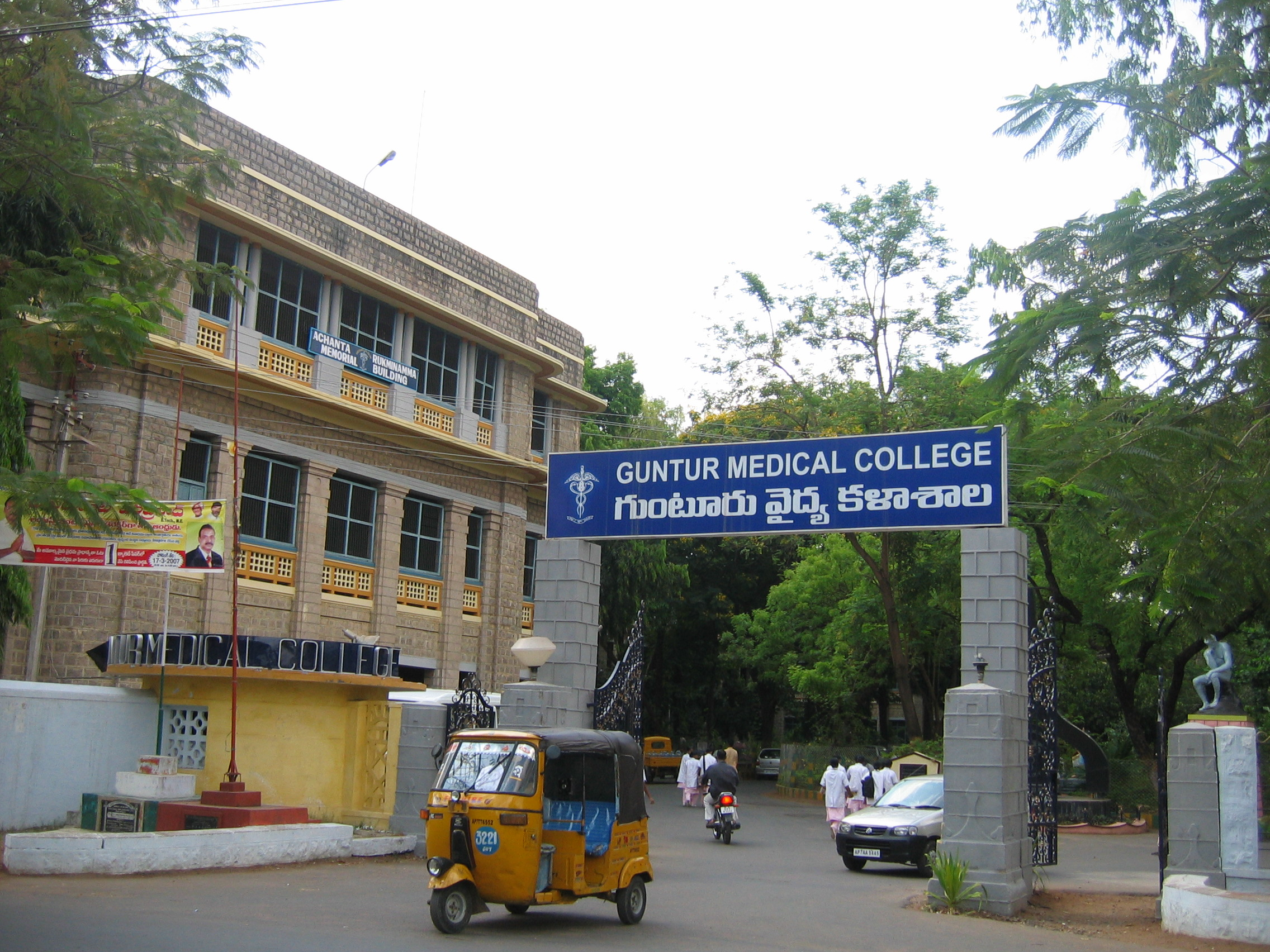 Guntur Medical College/GIMS Campus at the city of Guntur, India. It is one of the premier medical schools in India.